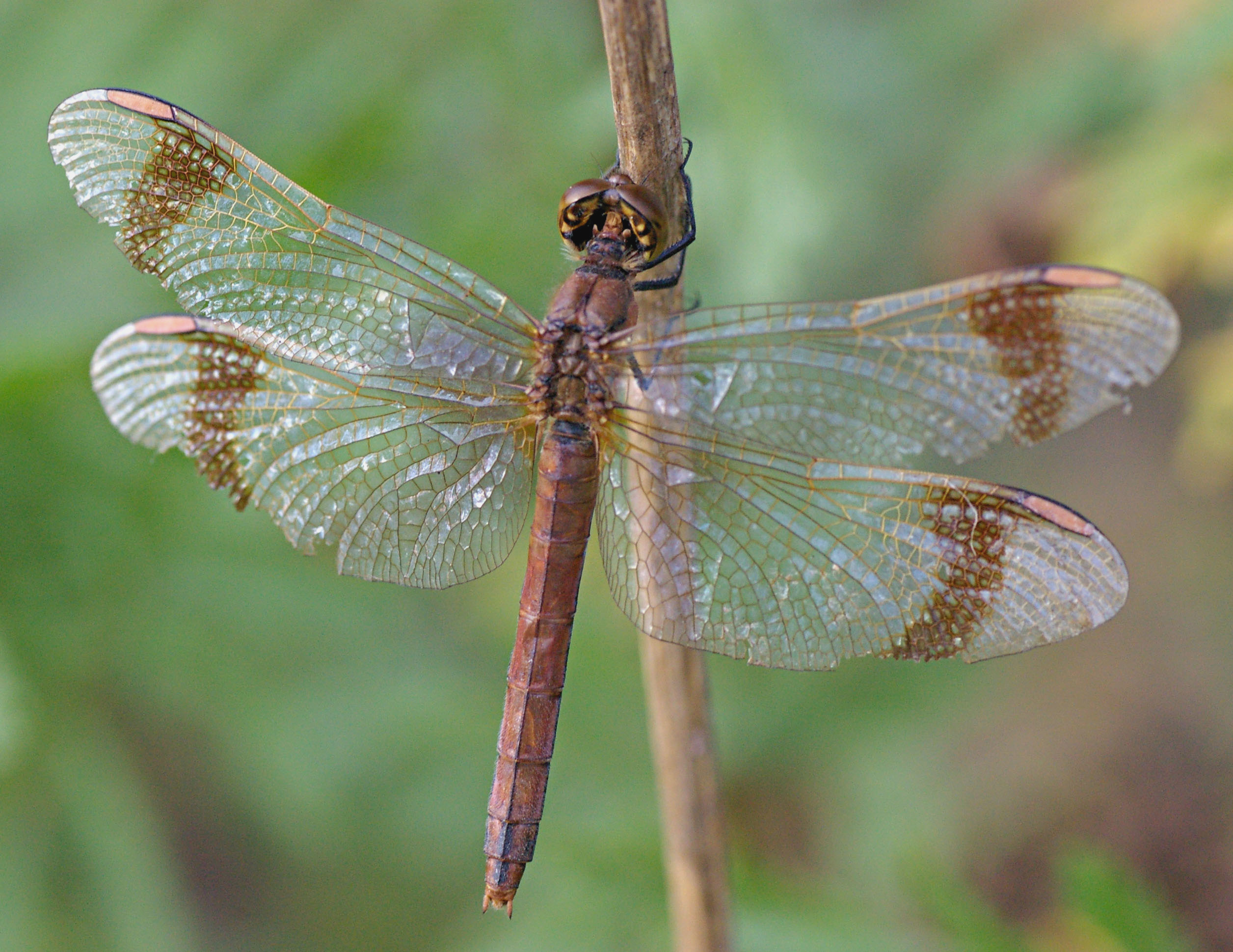 Elder female specimen of the dragonfly Sympetrum pedemontanum.